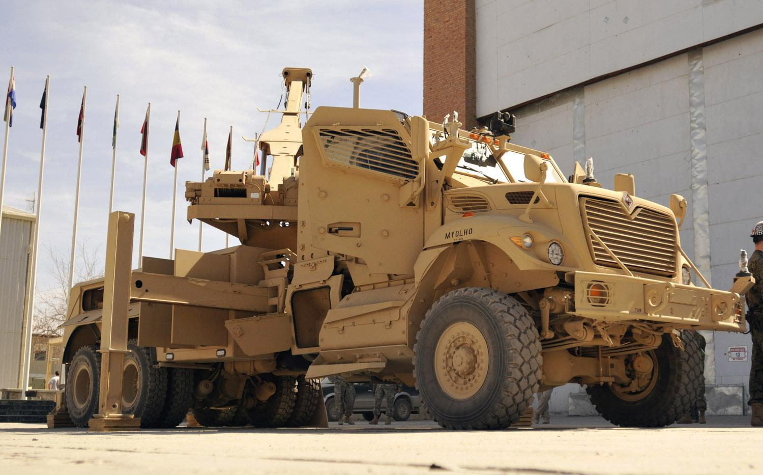 The M1249 military recovery vehicle is on display during its debut at Bagram Air Field, March 14. The U.S. military has ordered 250 of these wreckers to replace the current wrecker in Afghanistan. The MRV has the ability to recover any military vehicle that is damaged or stuck, including the Mine-Resistant Ambush-Protected vehicles, which are some of the heaviest vehicles currently used.